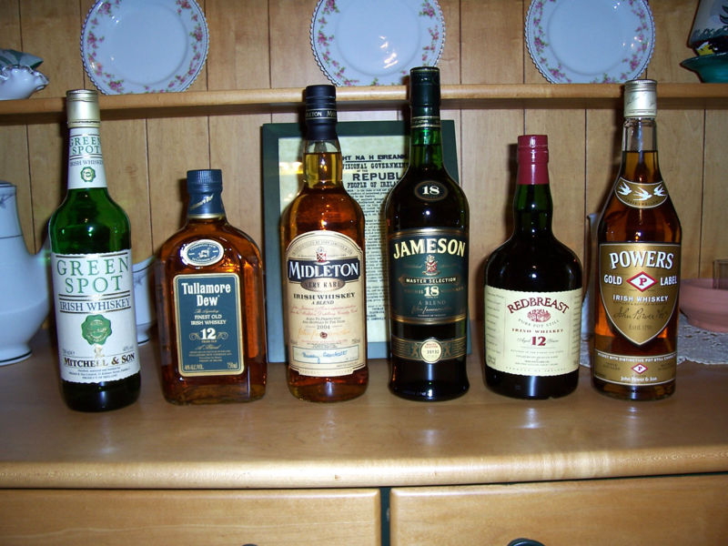 Various Irish whiskies. Picture by Cafeirlandais.